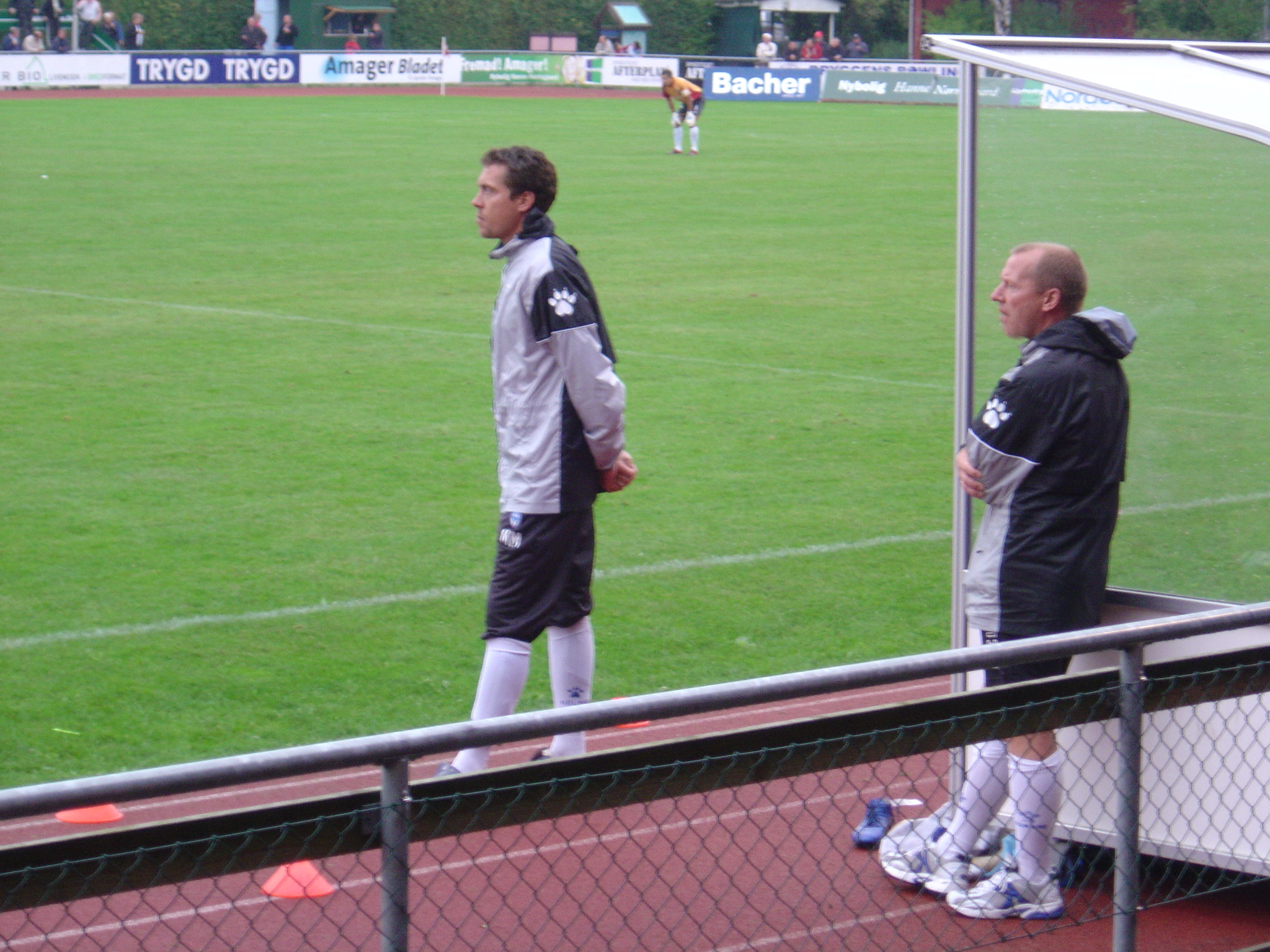 Michael Madsen (left) as the coach and Julian Hansen (right) as the assistent coach for the Danish football club FC Amager during the home match on 27. august 2008 against FC Fredericia in the Danish 1st Division, that ended 2-2.